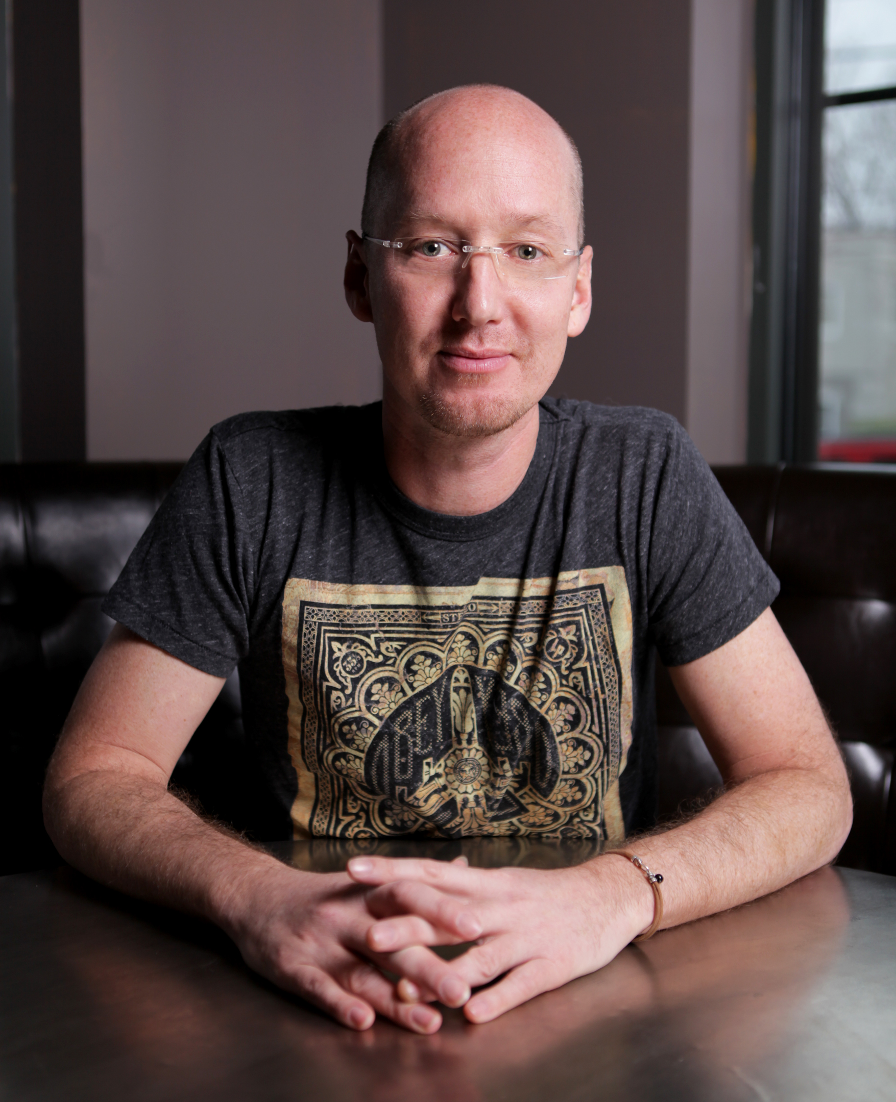 official headshot for mark montgomery